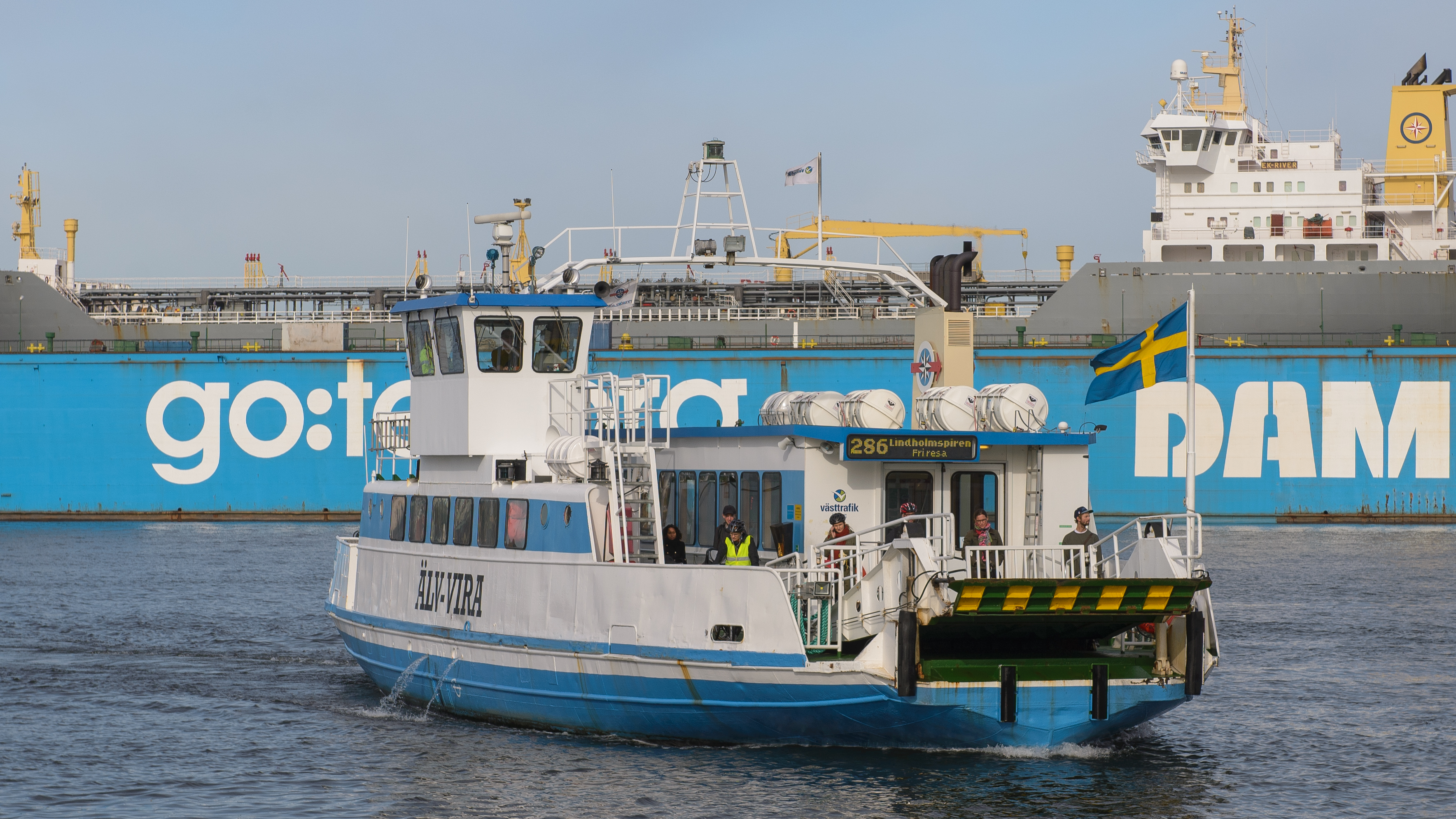 Ferry Älv-vira in Göteborg habour.